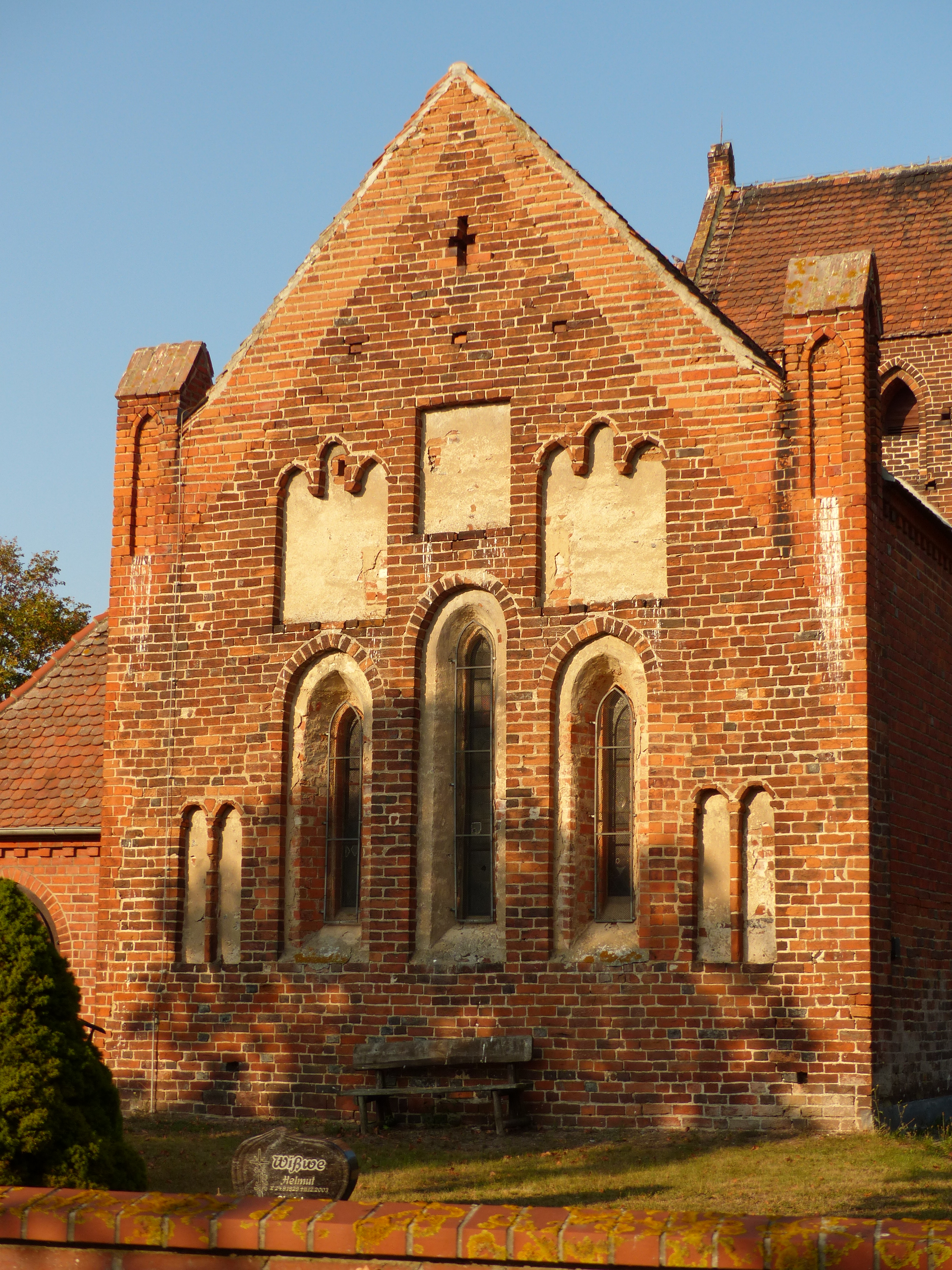 Brick Gothic village church of Rengerslage, municipality of Königsmark, Landkreis Stendal